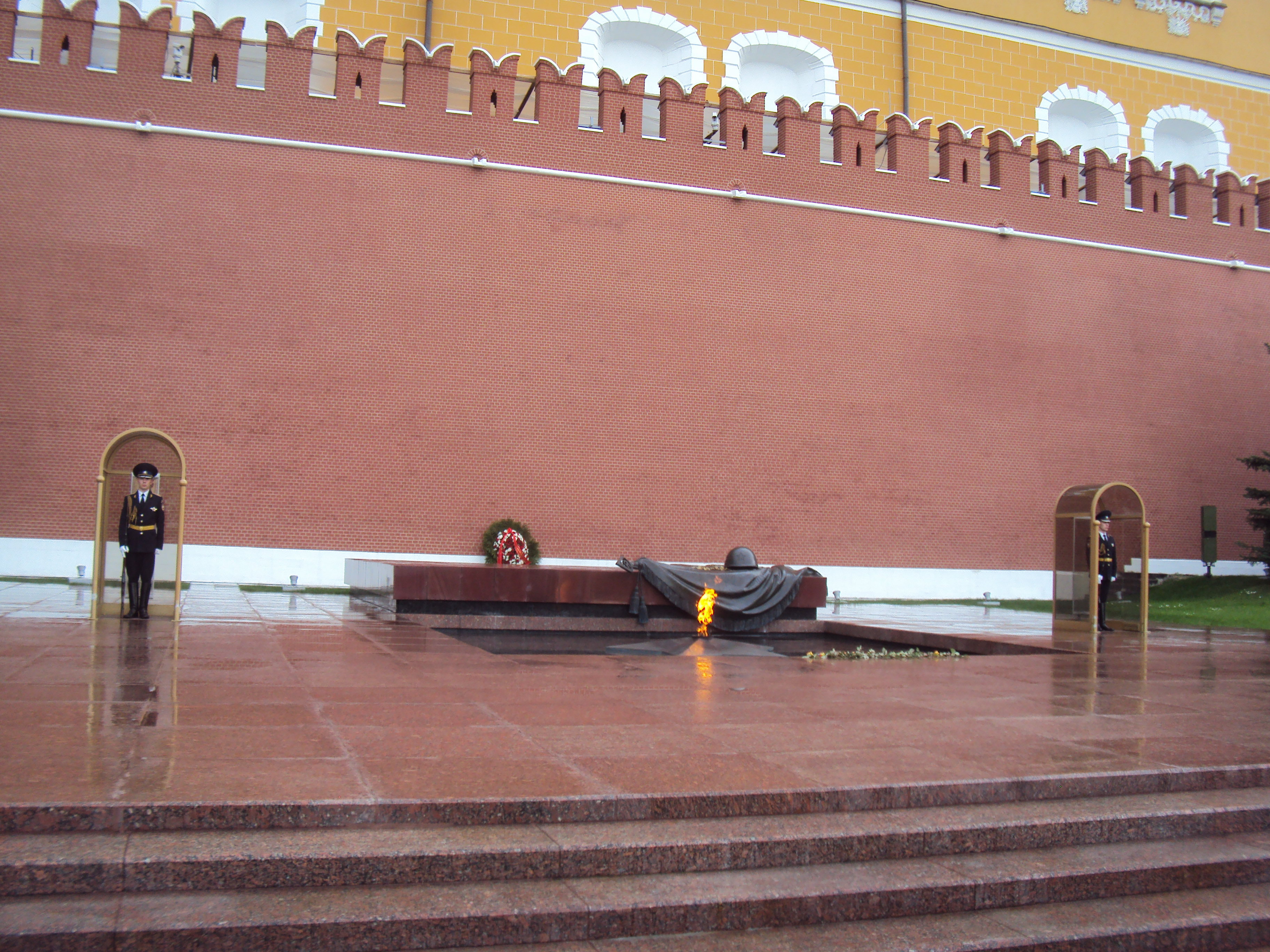 The monument at the tomb of the Unknown soldier, Moscow